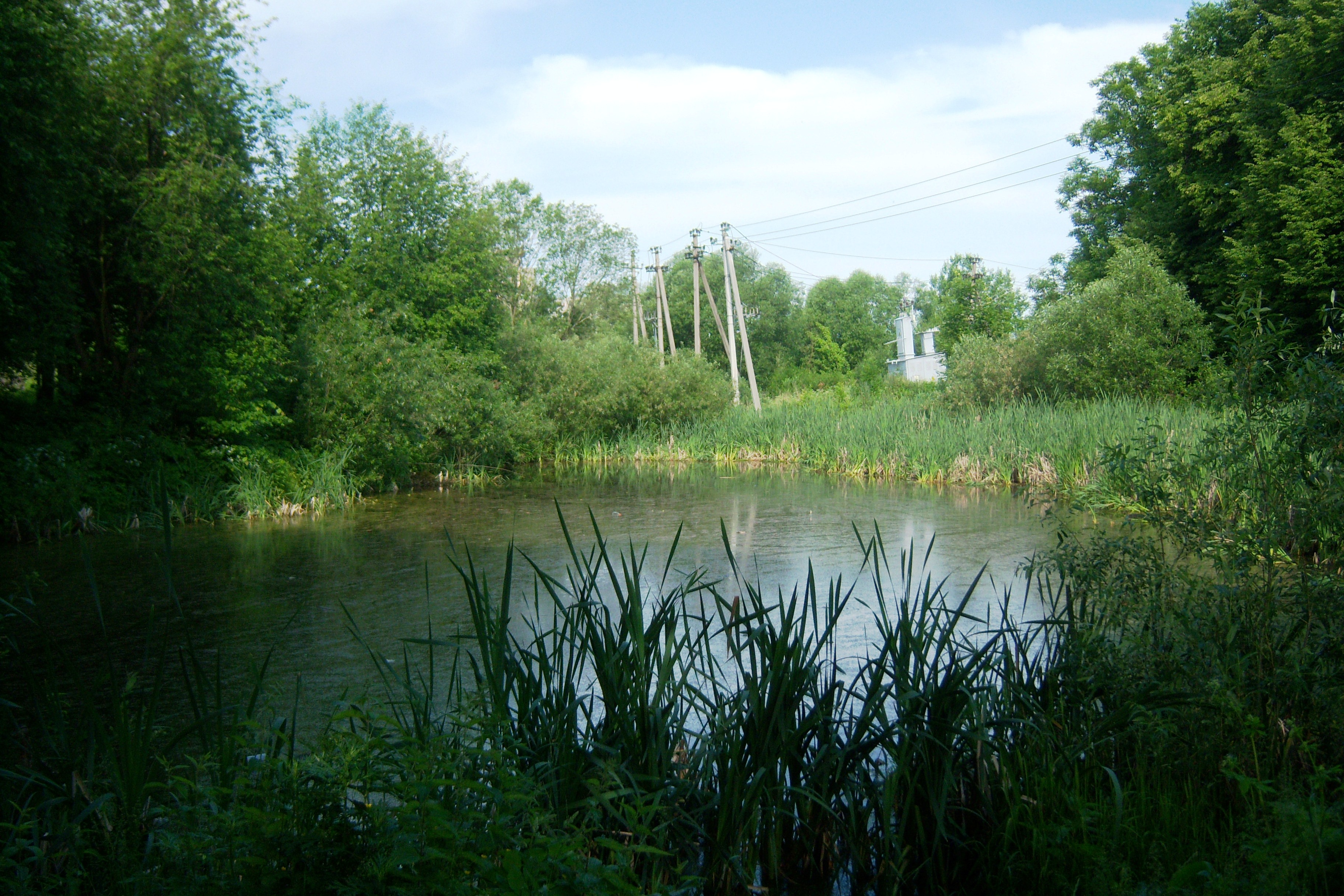 Pond of the former Sargėnai manor in Šilainiai, Kaunas. Lithuania